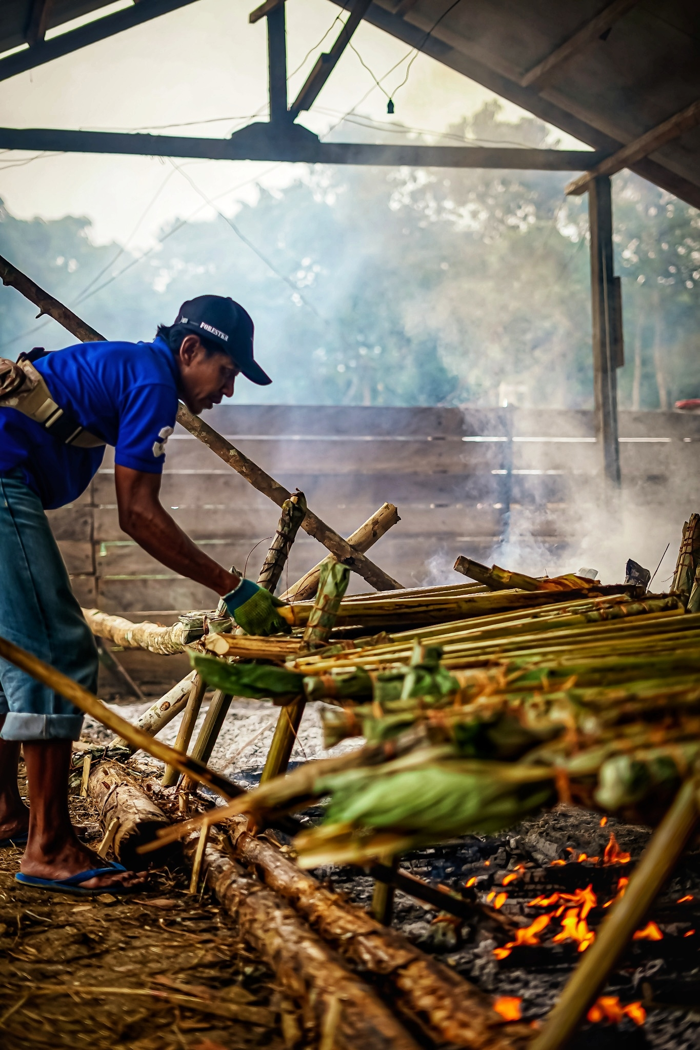 Bakar lemang merupakan tradisi suku dayak di kampung yembudan untuk merayakan pesta panen